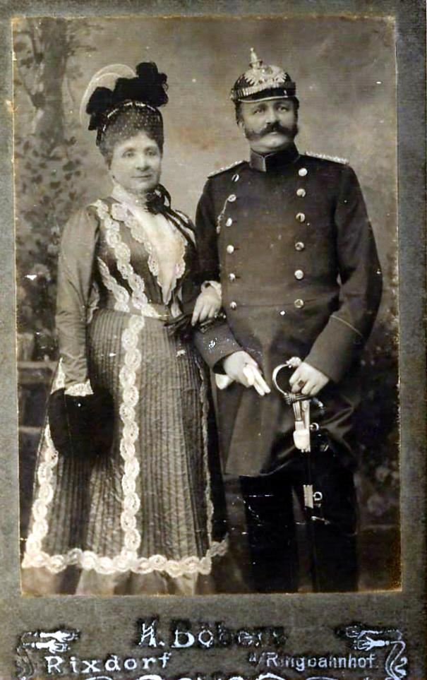 German opera singer Luise Limbach with her husband Heinrich Wilhelm Viktor Gustav von Carnap, royal Pussian police Hauptmeister, family photo taken in (Berlin-)Rixdorf after return of their marriage in Whitechapel/London 1877.